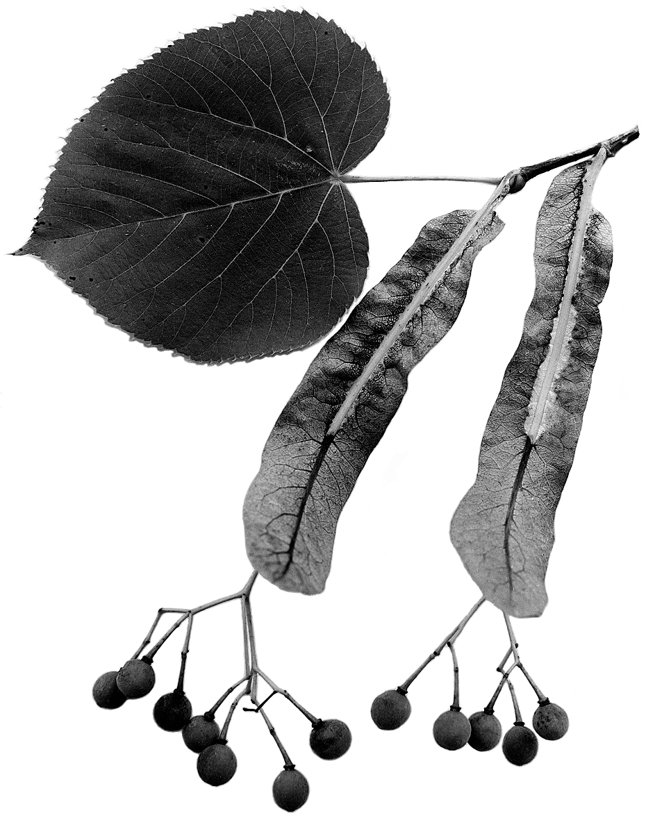 Tilia americana L. - American basswood